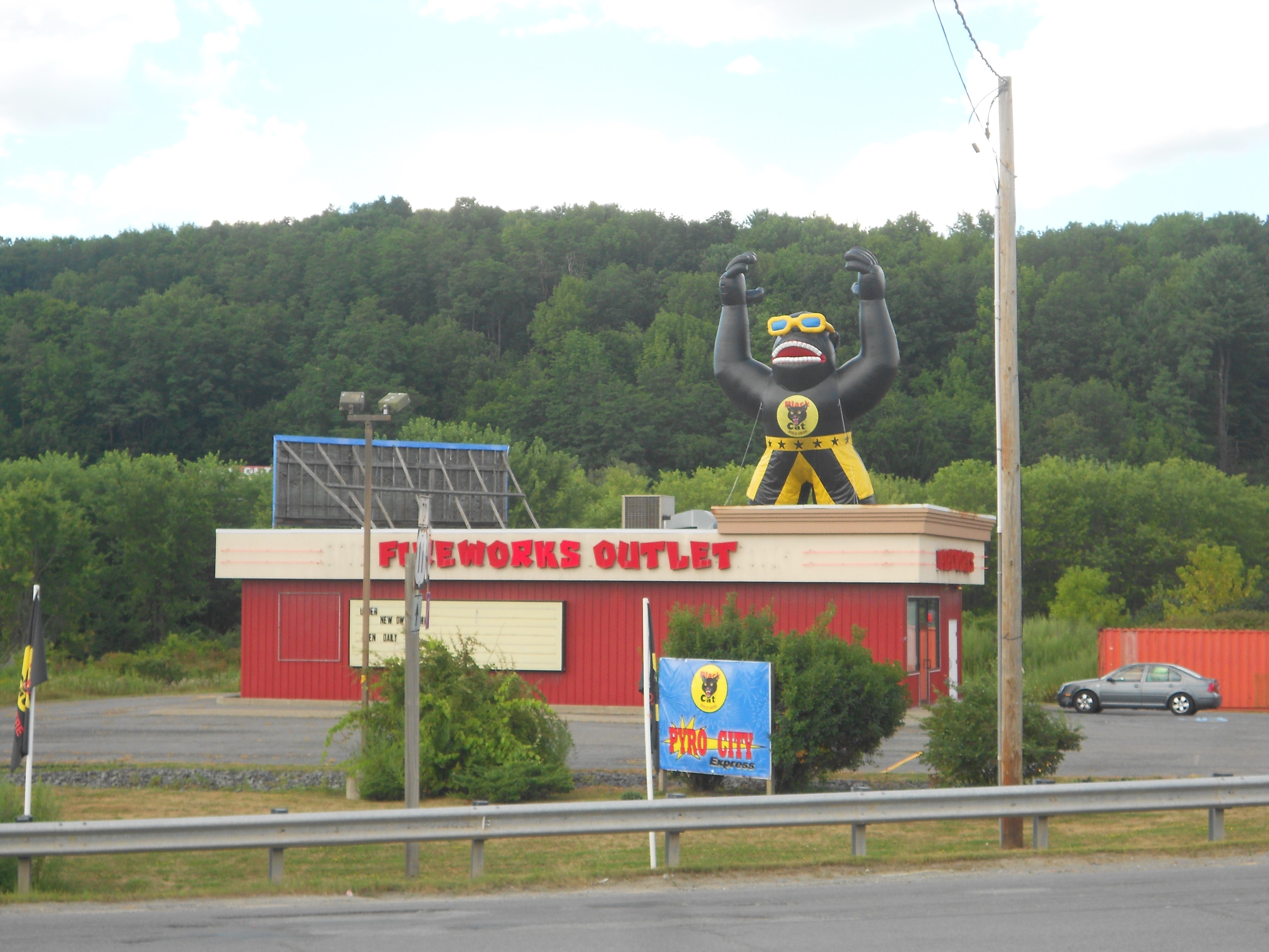 Fireworks store in Great Bend Township, Susquehanna County, Pennsylvania. Just east of I-81 on PA 171 and just outside the boro of Great Bend.